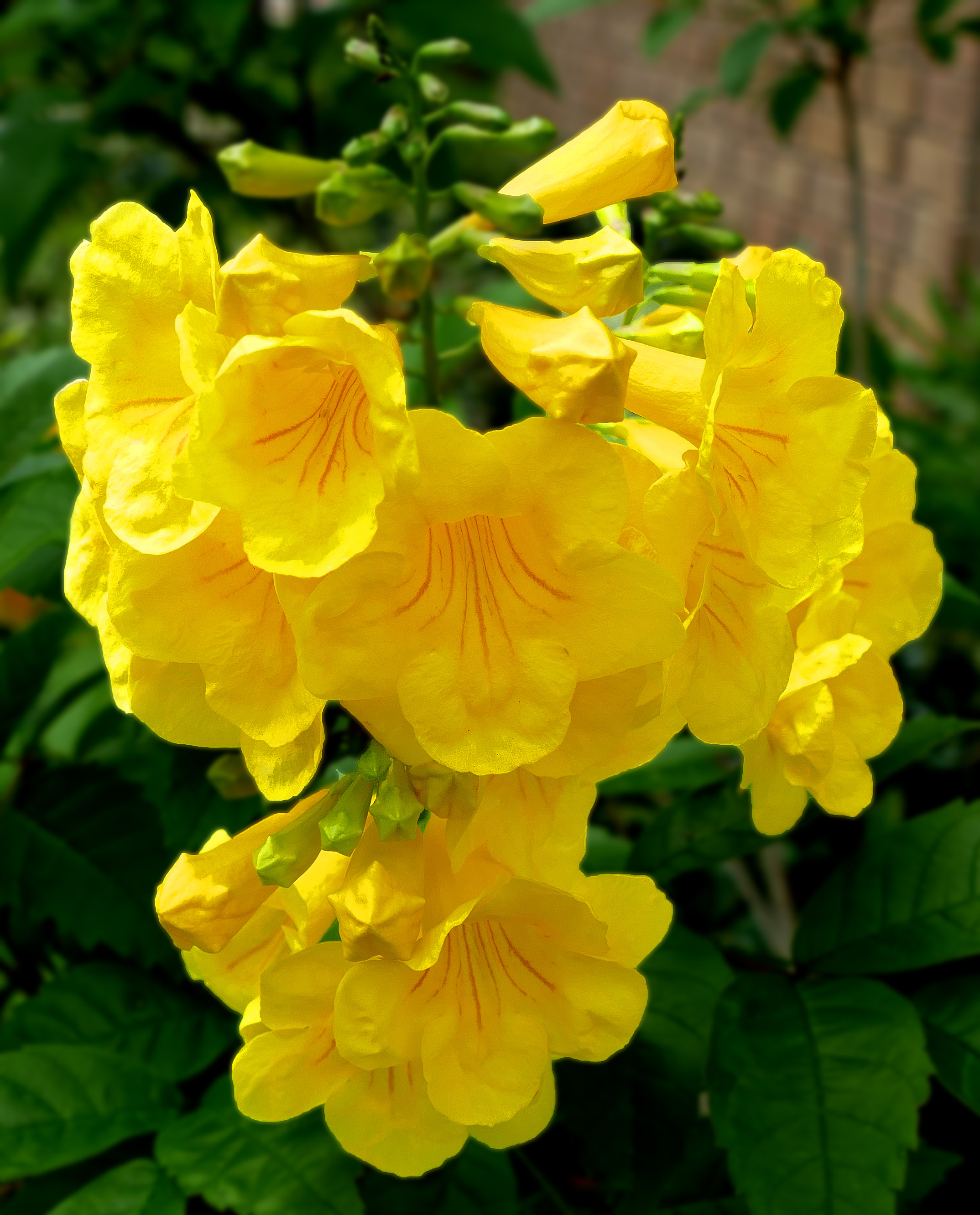 Yellow trumpetbush -- Tecoma stans